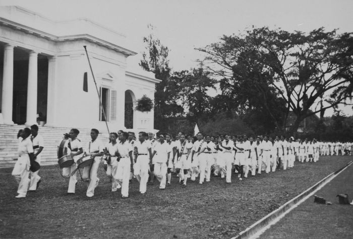 Marching towards the palace in Jakarta during the Japanese occupation